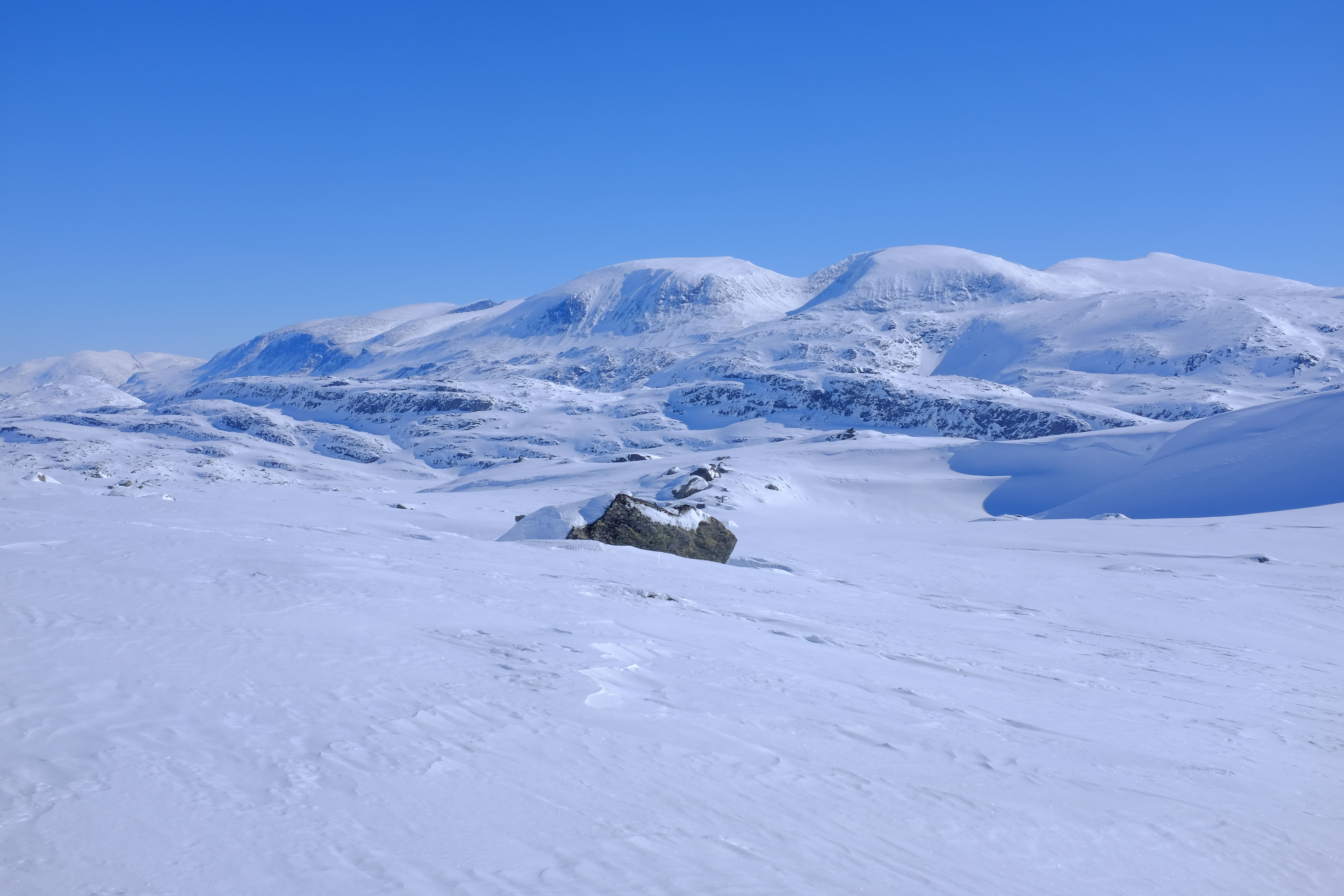 Loftet mountain in Jotunheimen National Park, between Breidsæter valley and Leirdalen in Lom municipality in Oppland, Norway.